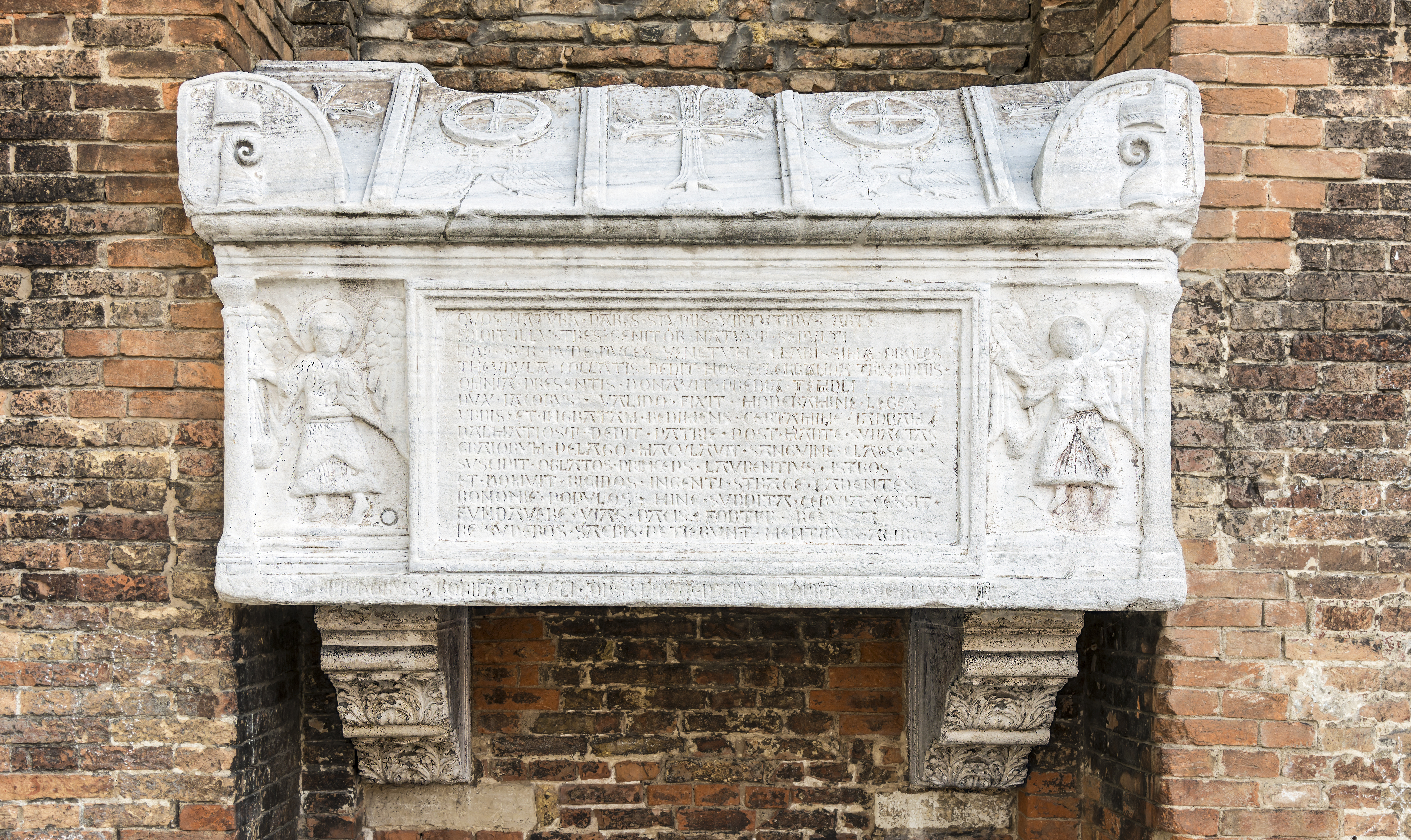 Santi Giovanni e Paolo, Venice - Facade - The Tomb of the Doges Jacopo Tiepolo († 1249) and Lorenzo Tiepolo († 1275), the second from the left along the facade.